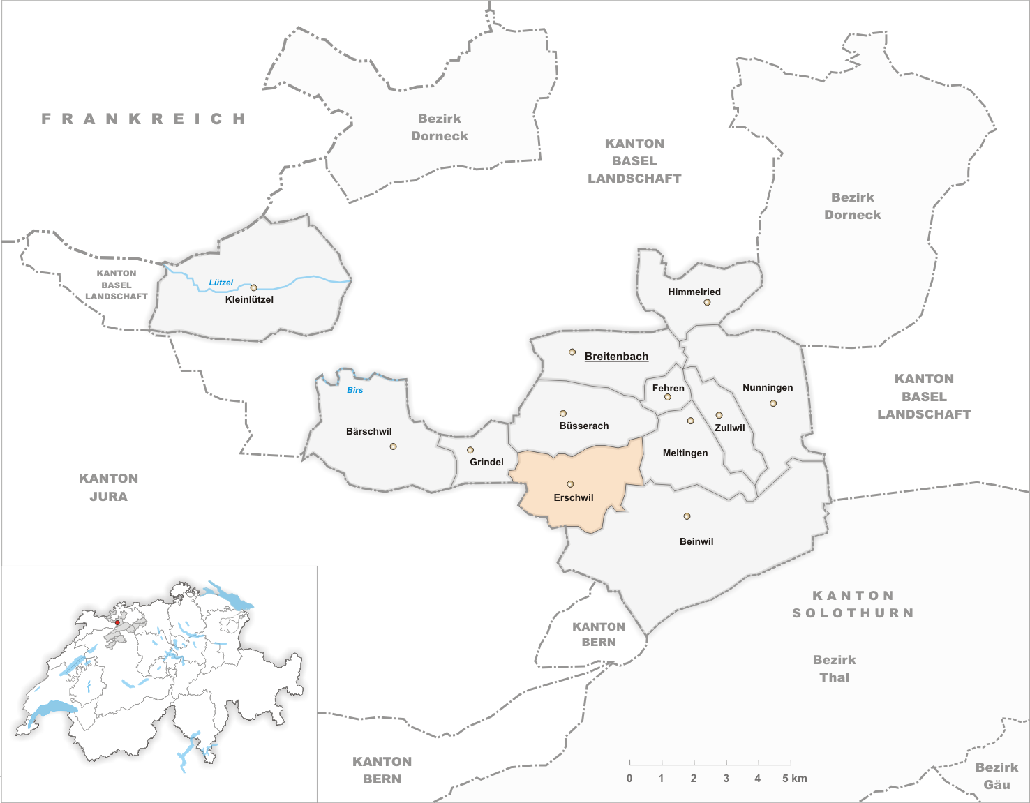 Municipality Erschwil